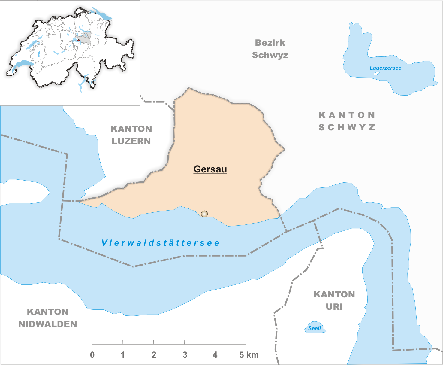 Municipality Gersau